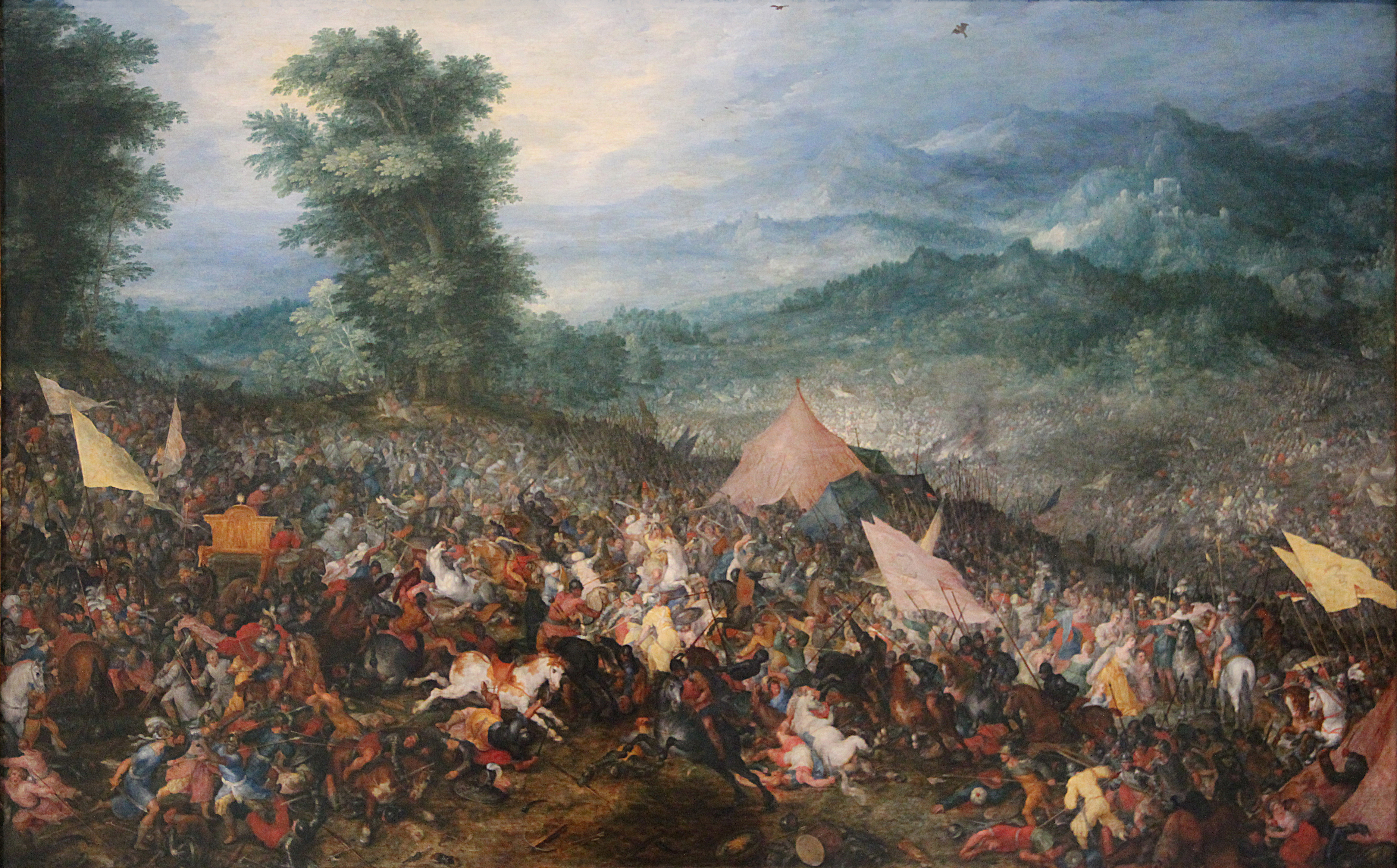 The Battle of Issus or Arbela